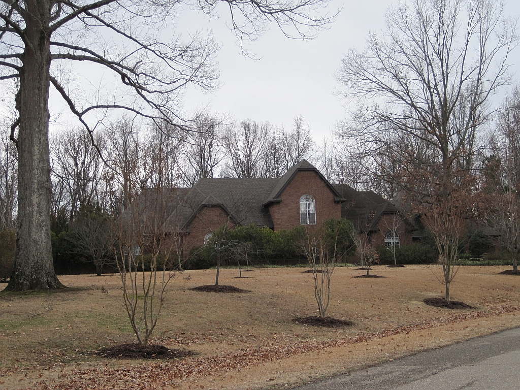 Junstin Timberlake's villa in the Shelby Forest area of Millington.